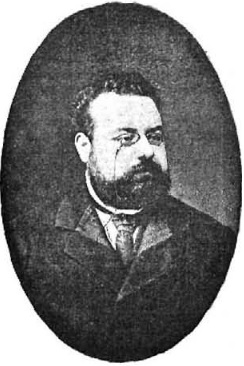 Josep Feliu i Codina, in Barcelona cómica magazine of 12.1.1895